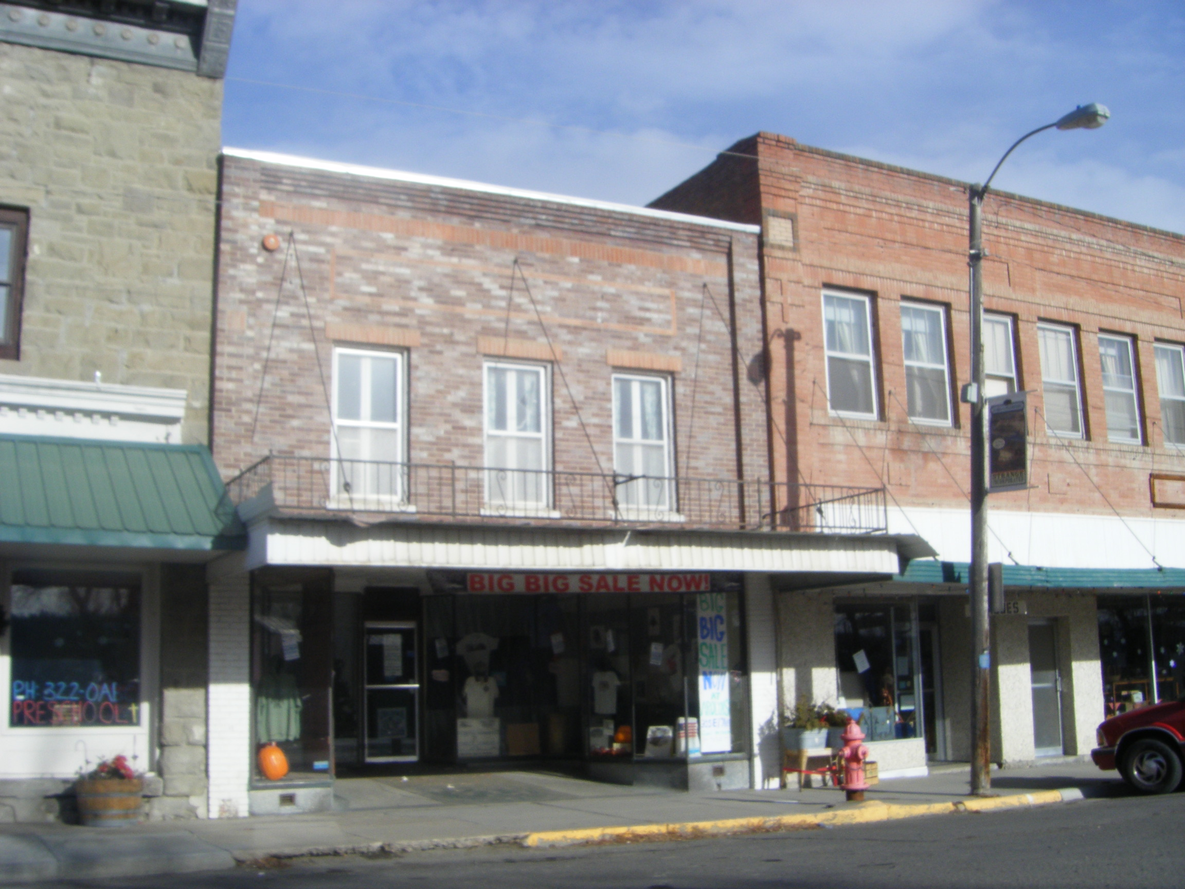 big big sale now